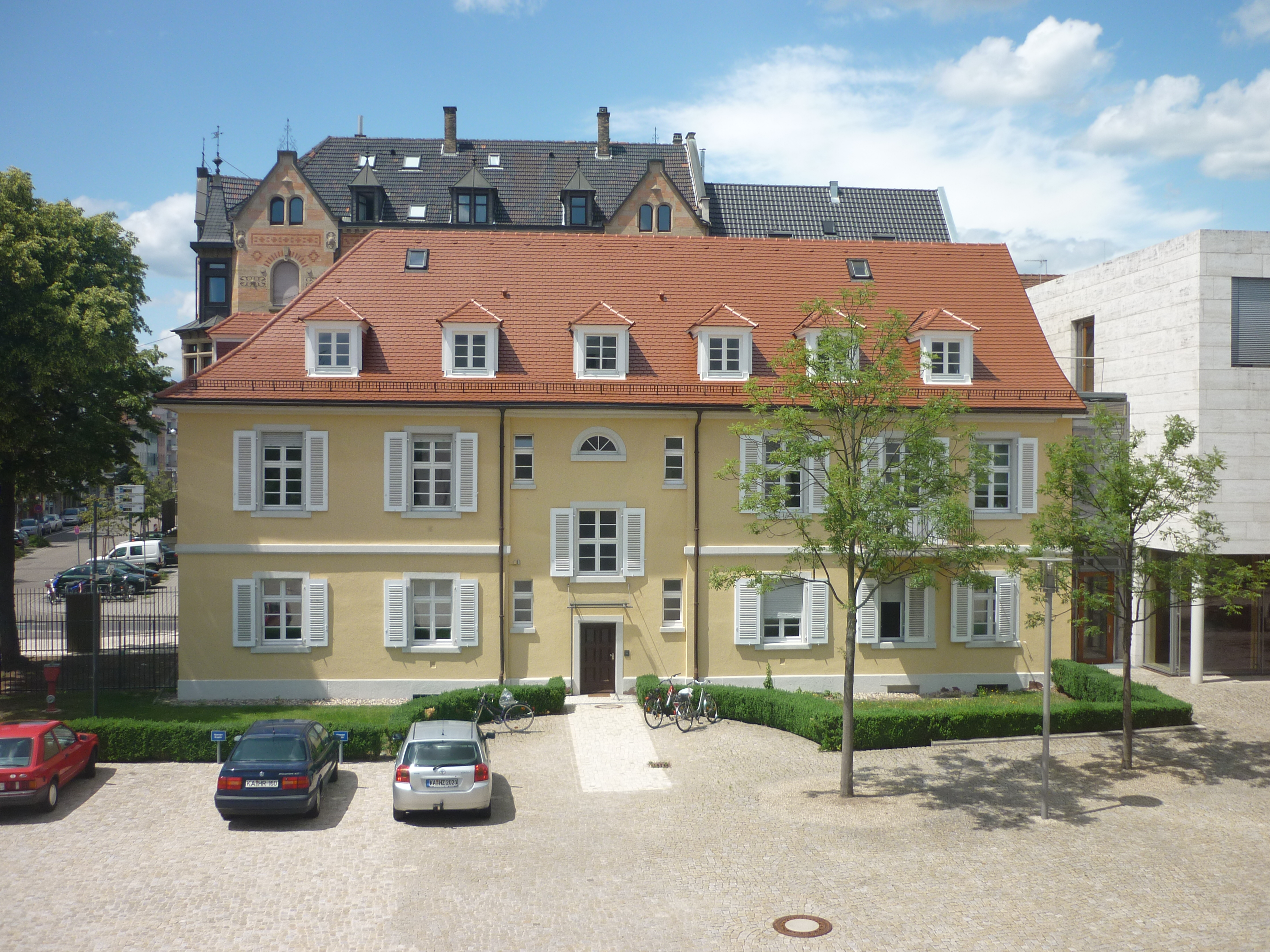 Weinbrenner building of the Federal Court of Justice of Germany inbetween the secured entrance (left) and the north building (right), east front facing the courtyard, Karlsruhe